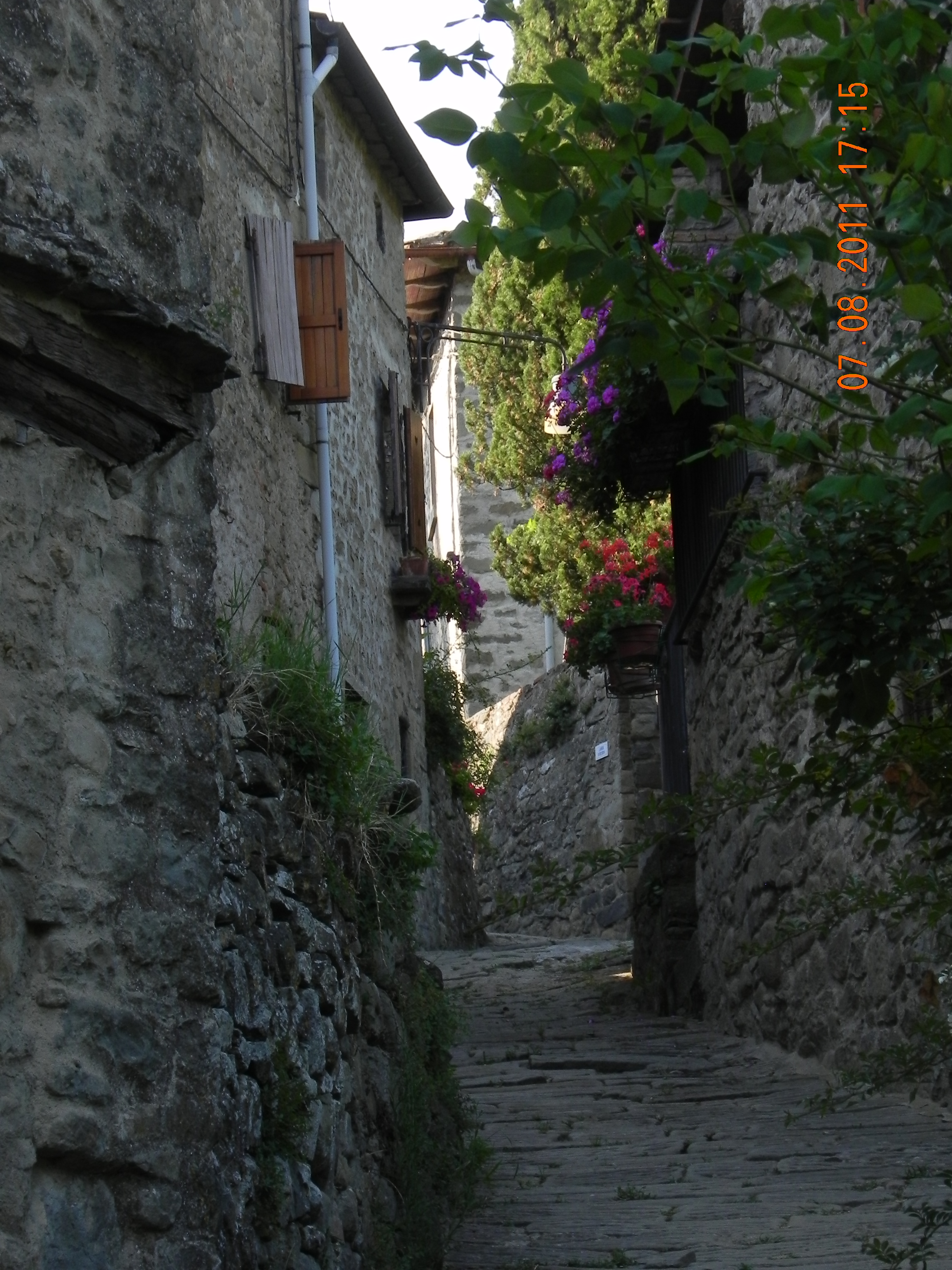 Sìlice, strada principale di Pratovalle